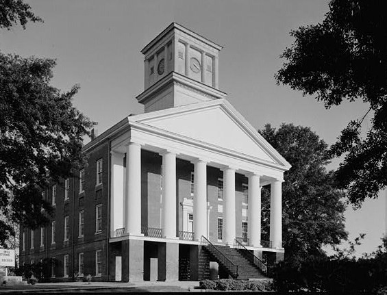 Alcorn State University, Oakland Chapel, Alcorn State University Campus, Alcorn vicinity (Claiborne County, Mississippi) (cropped)